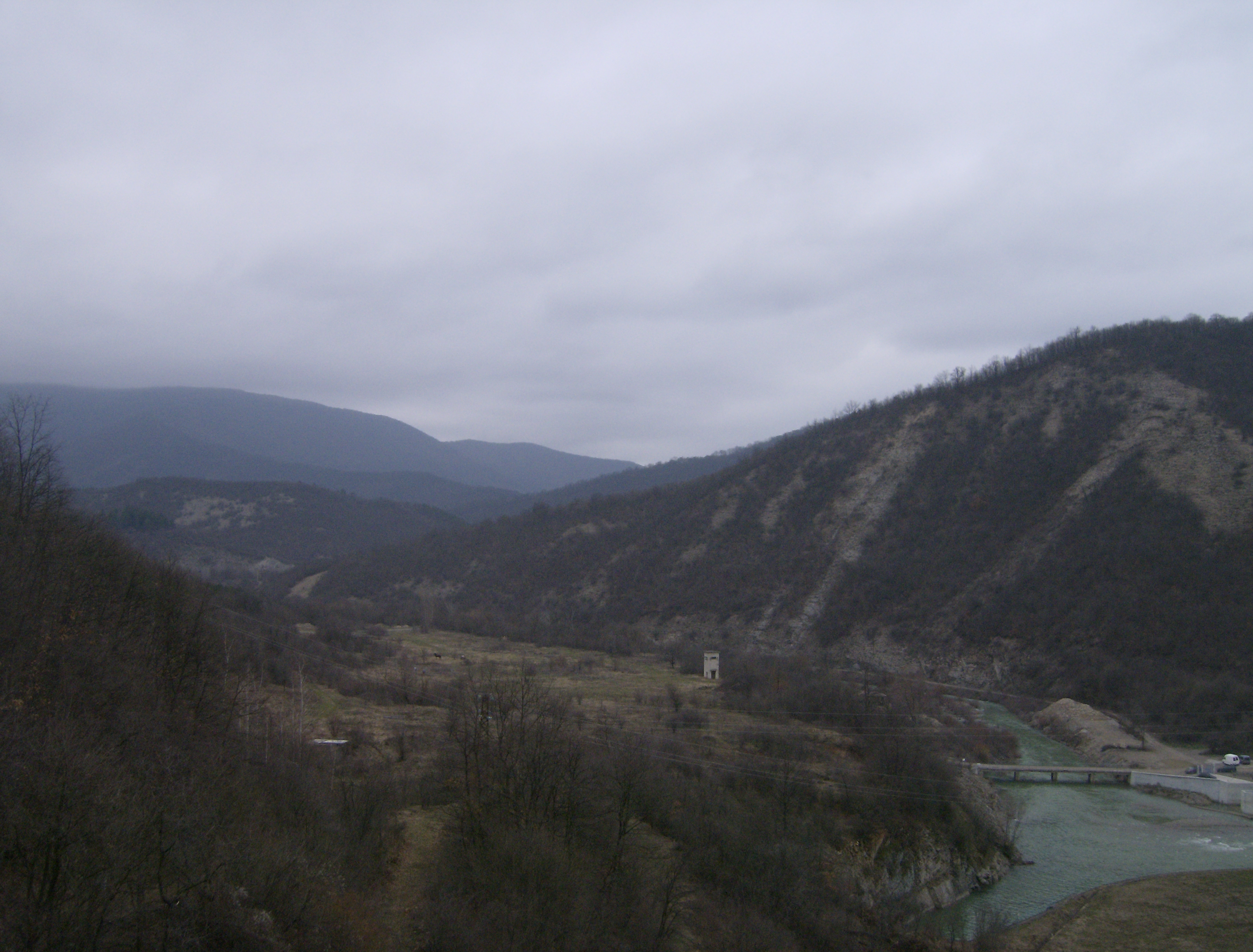 Ticha Dam